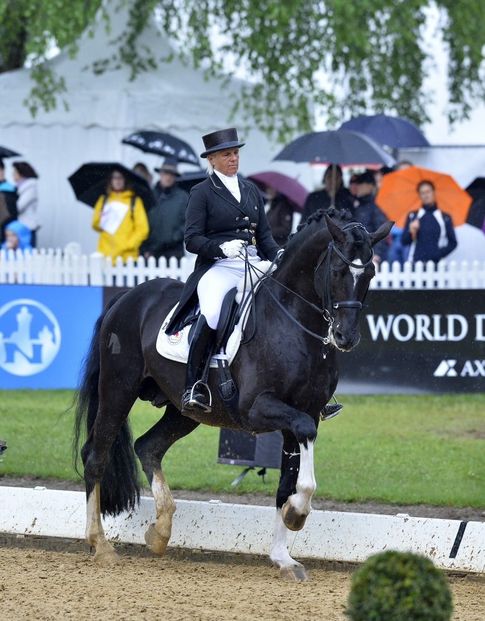 CDI 5* World Dressage Masters at 2013 Pferd International Munich: Uta Gräf and Le Noir at Grand Prix Spécial